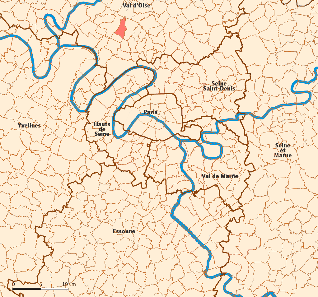 Created map myself.